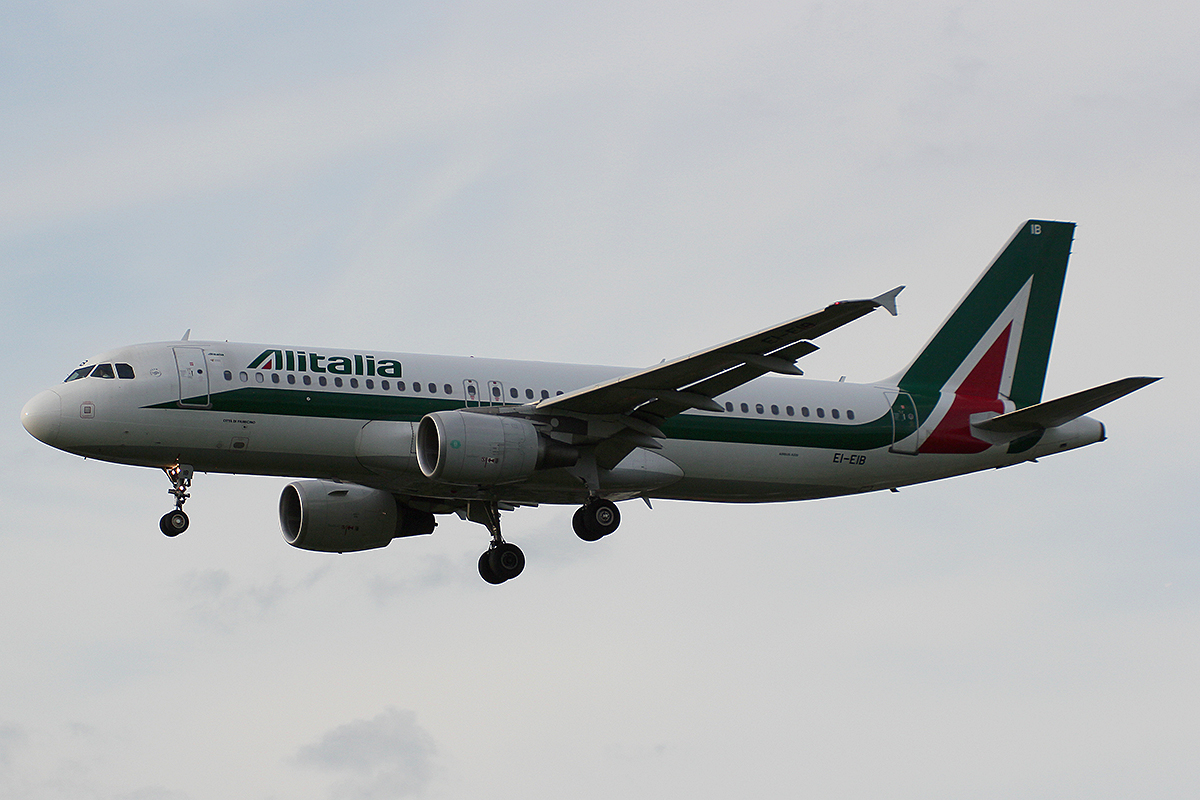 EI-EIB Airbus A320-216 @ Heathrow 03/06/2017